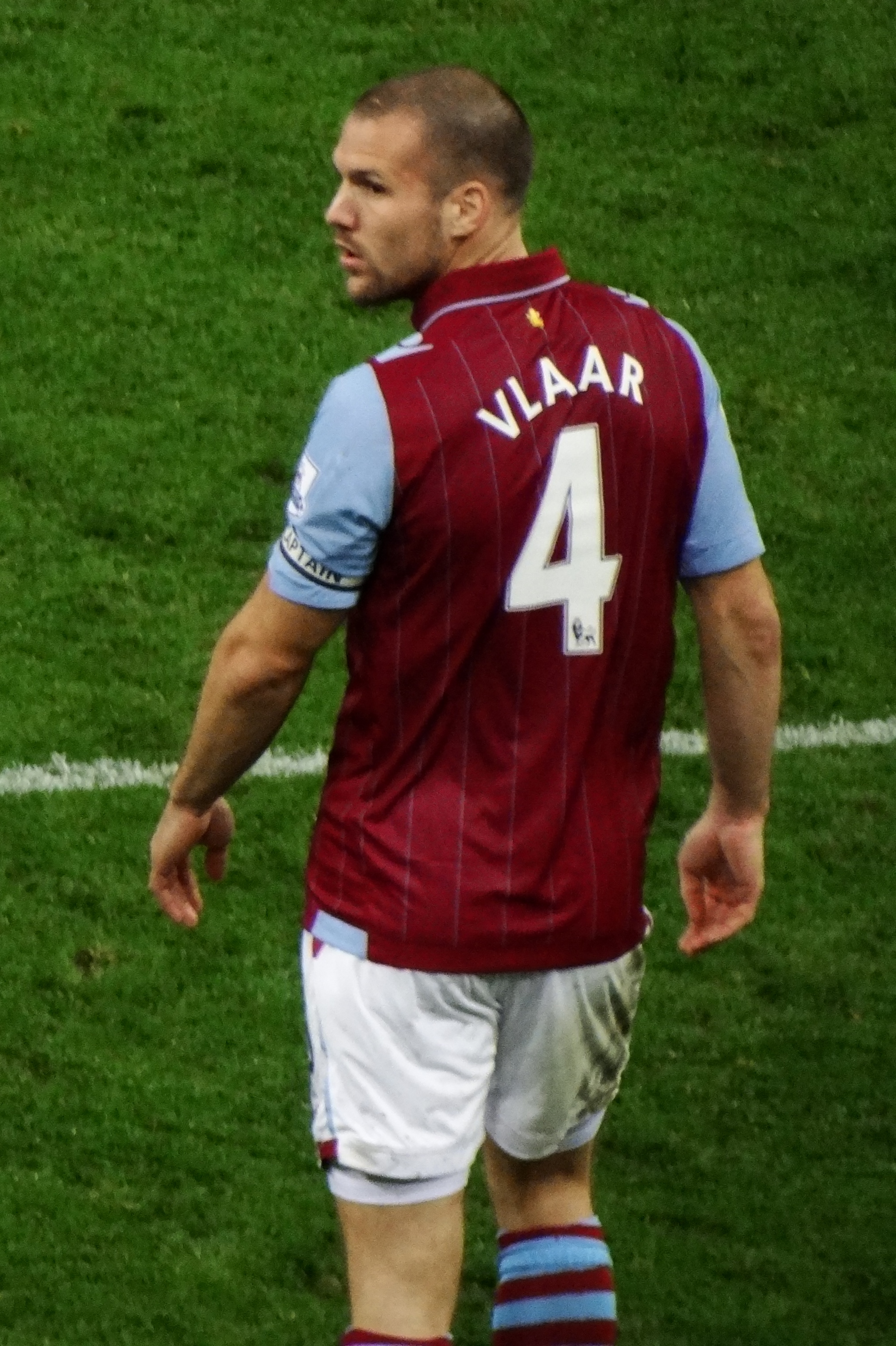 Dutch footballer Ron Vlaar during Aston Villa-Tottenham Hotspur (1-2) on 2 November 2014.